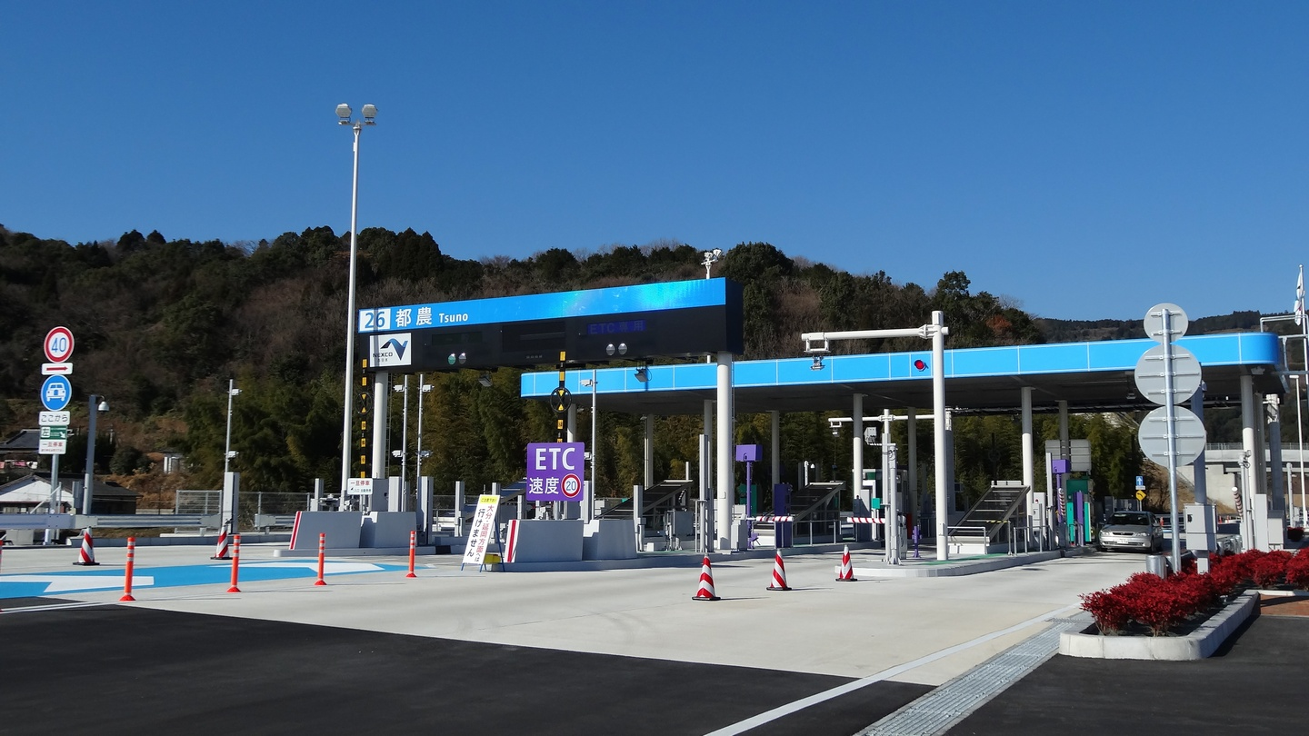 Toll plaza at Tsuno Interchange on the Higashi-Kyushu Expressway, in Tsuno Town, Miyazaki Prefecture, Japan